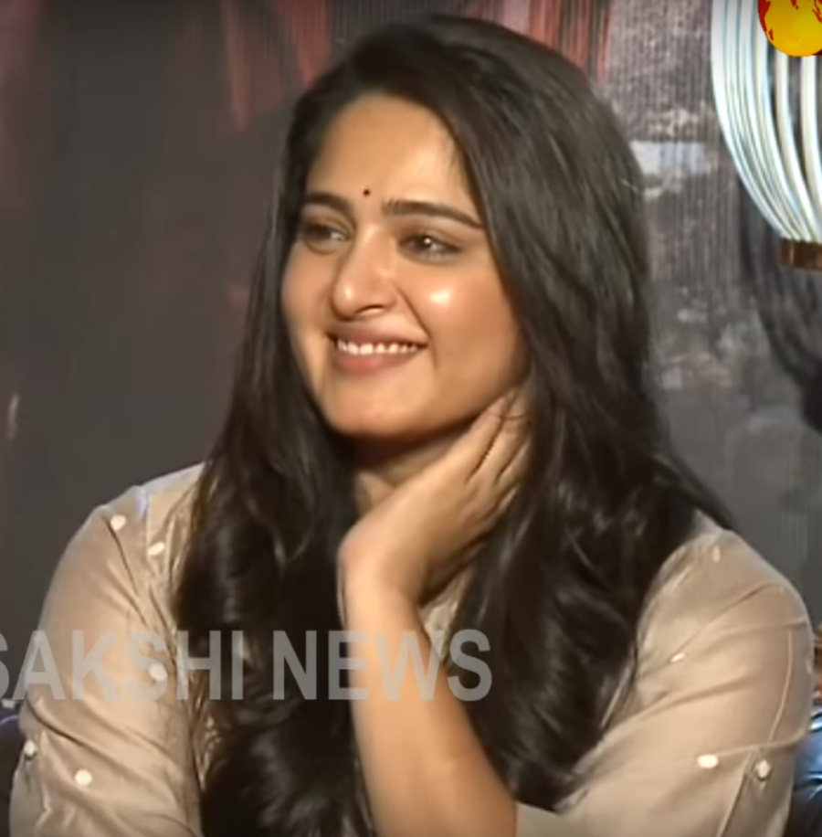 Anushka Shetty at the interview for Bhaagmathi